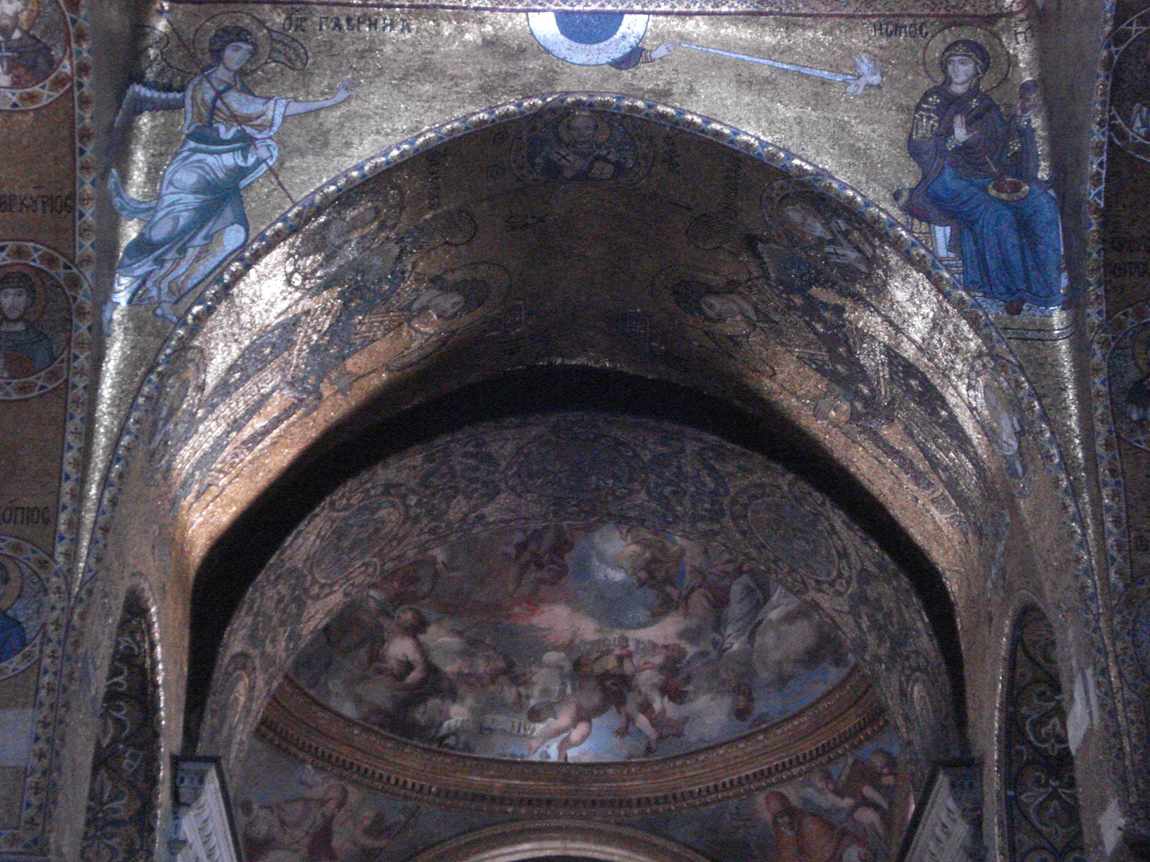 Annunciation (Martorana)